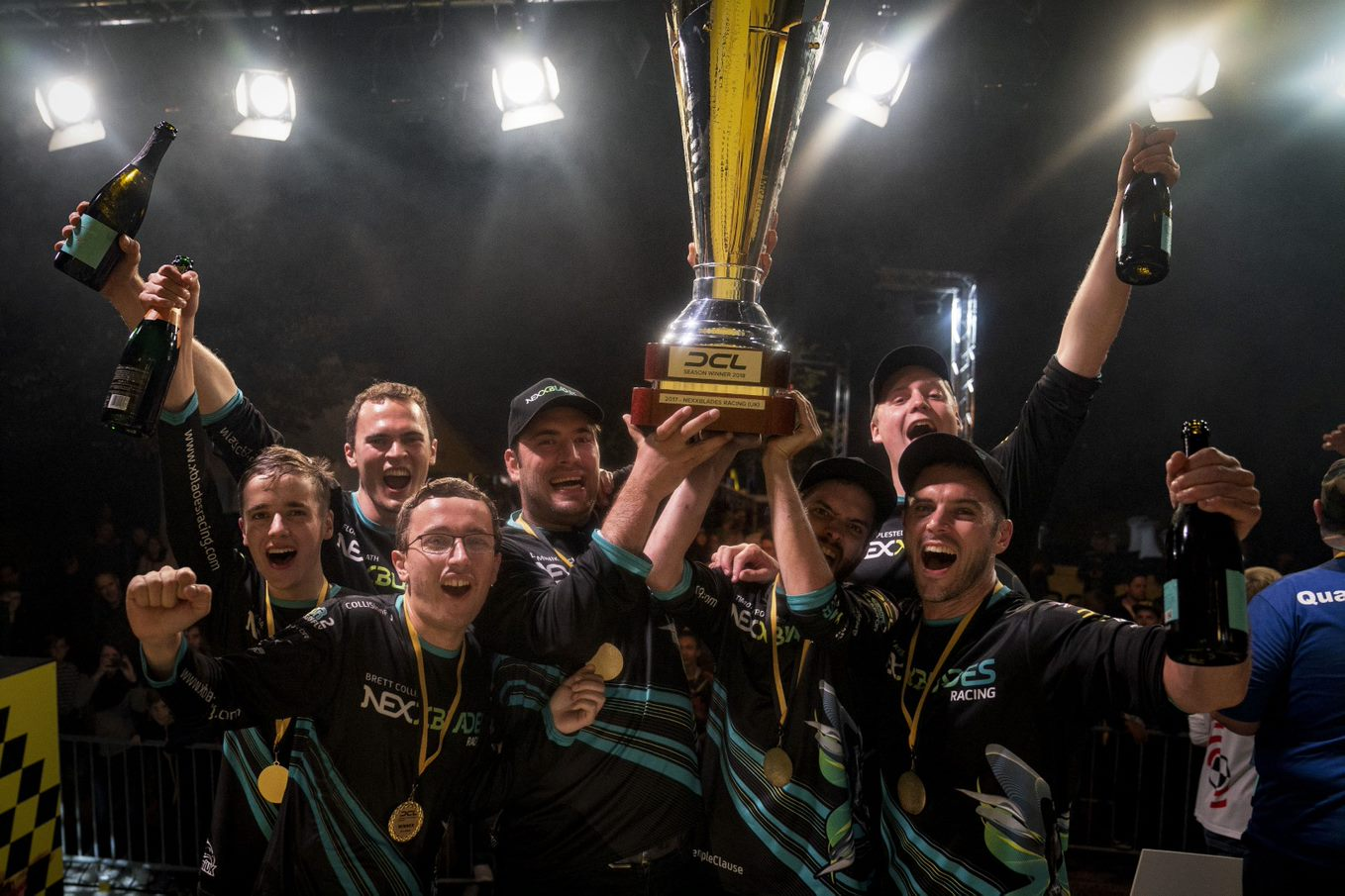 NEXXBlades Racing - Gesamtsieger 2018